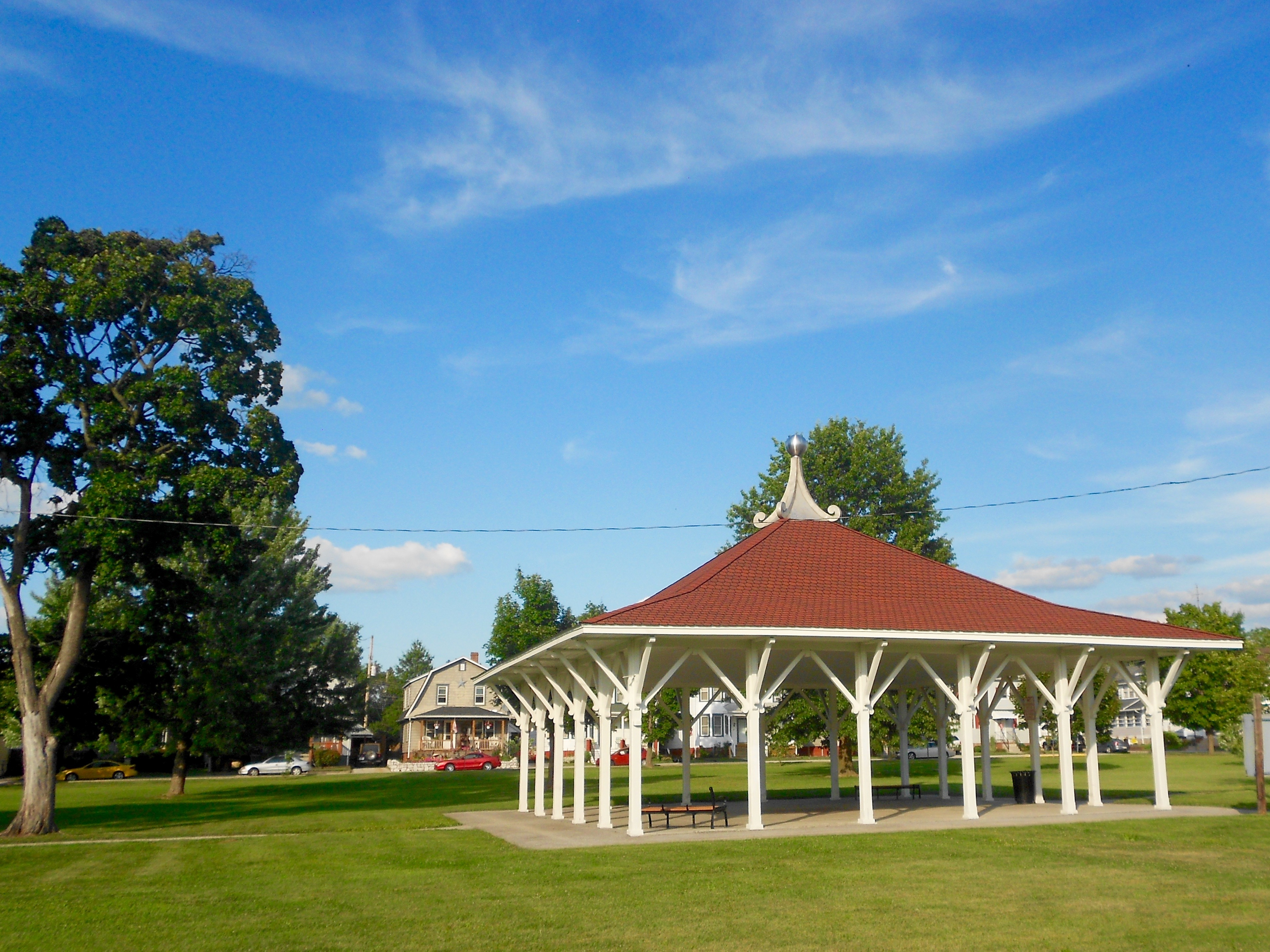 Crouse Pavillion in Crouse Park, Littlestown, Adams County, Pennsylvania